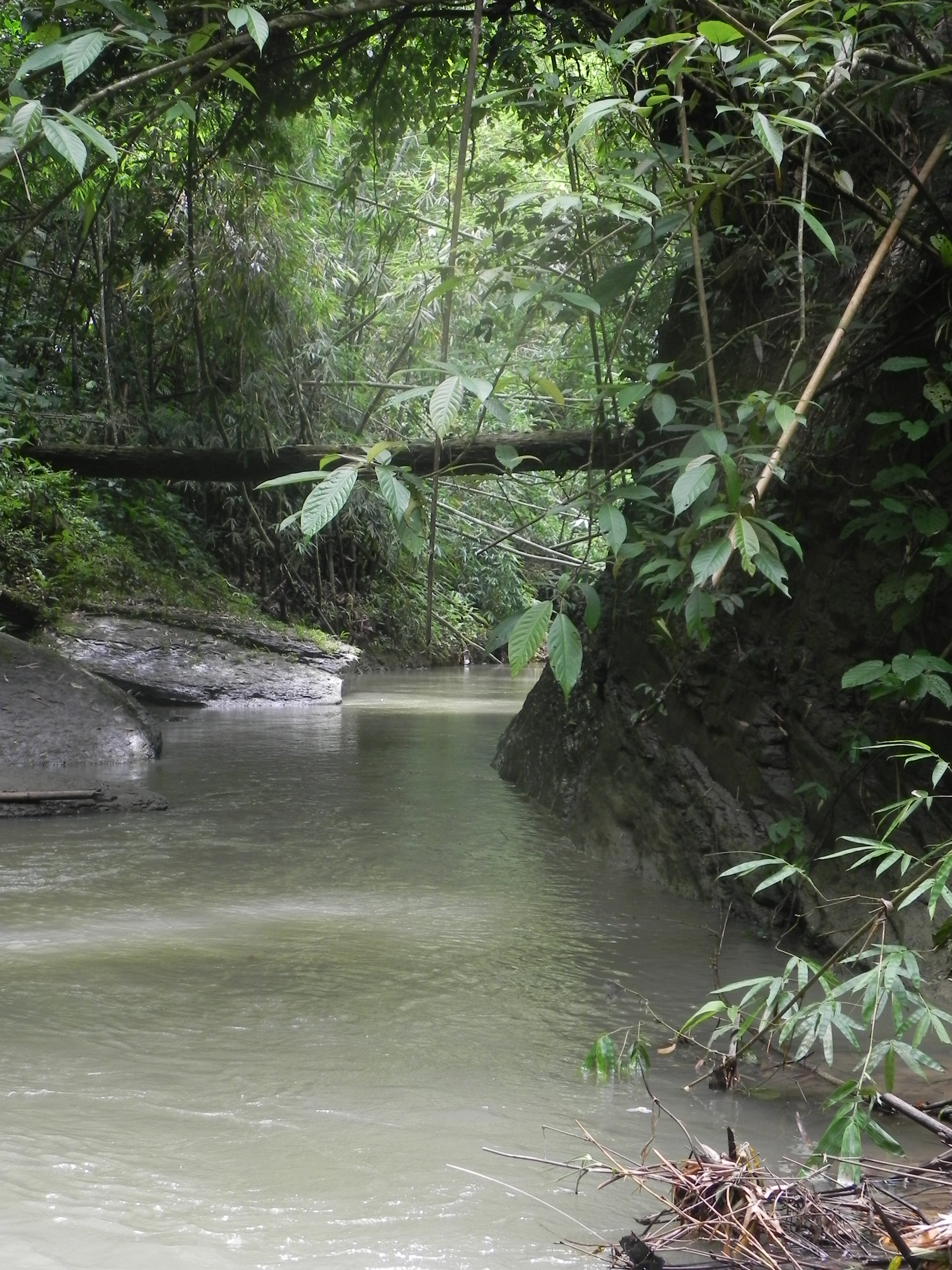 Hamham waterfall located in Sreemangal, Maulvi Bazar, Bangladesh.